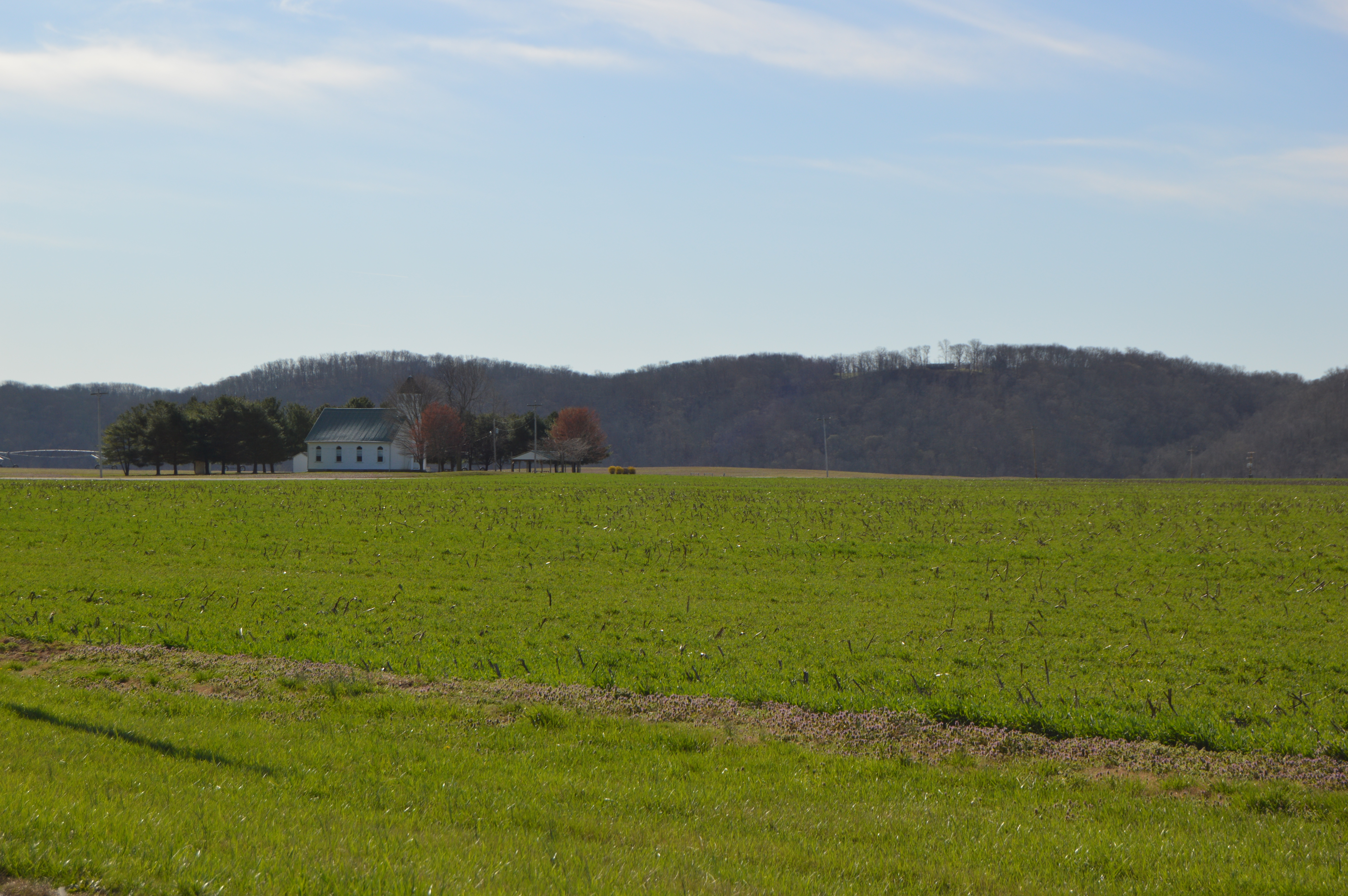 Looking south from State Road 156 over wheat growing in a corn-stubble field in Egypt Bottom, located along the Ohio River below Patriot in Posey Township, Switzerland County, Indiana, United States. Visible behind Concord Church in the background are wooded hills in Gallatin County, Kentucky.